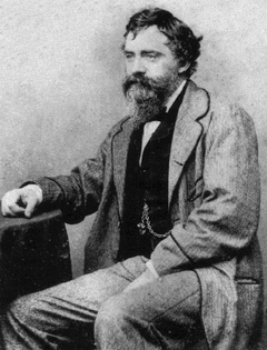 Thomas Garnier Parry